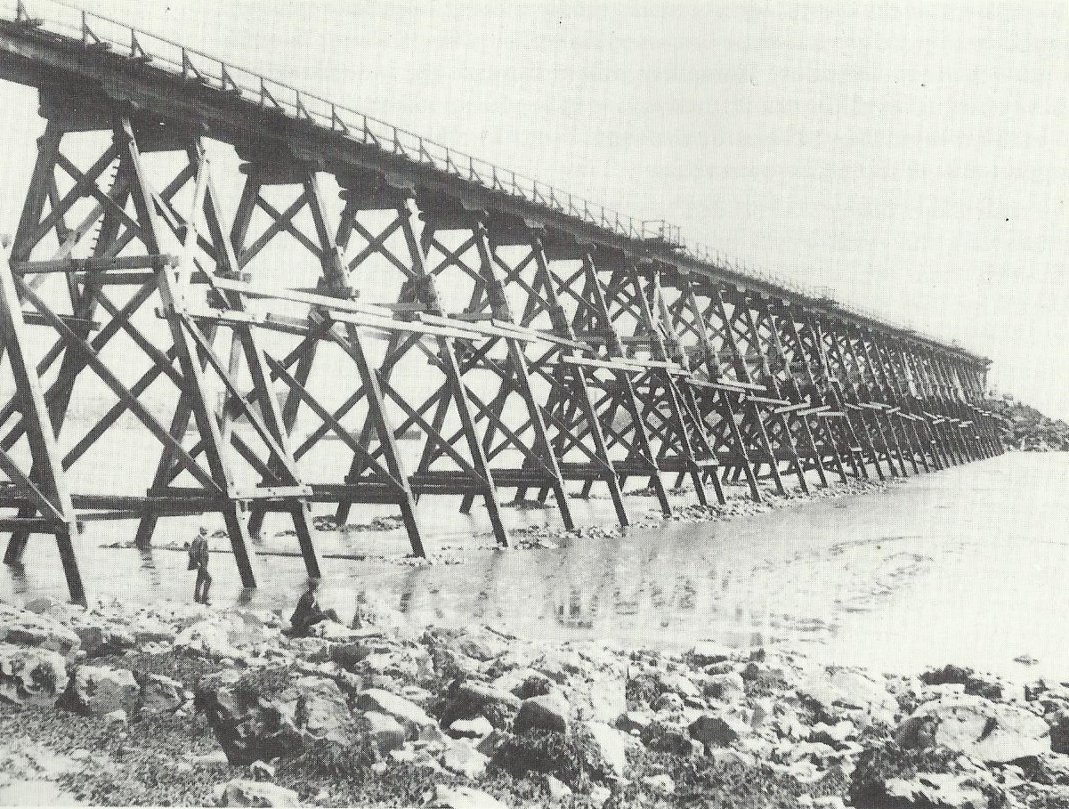 Breakwater under construction at western entrance to Barry Dock, viewed from Jackson's Bay at low tide.